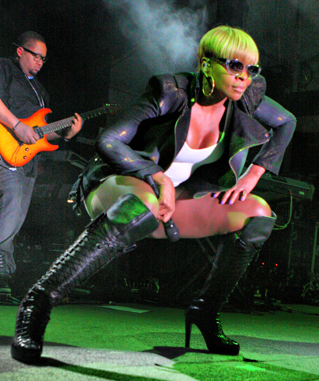 Mary J. Blige performing at the Raggamuffin Festival in Sydney, Australia in January 2011.